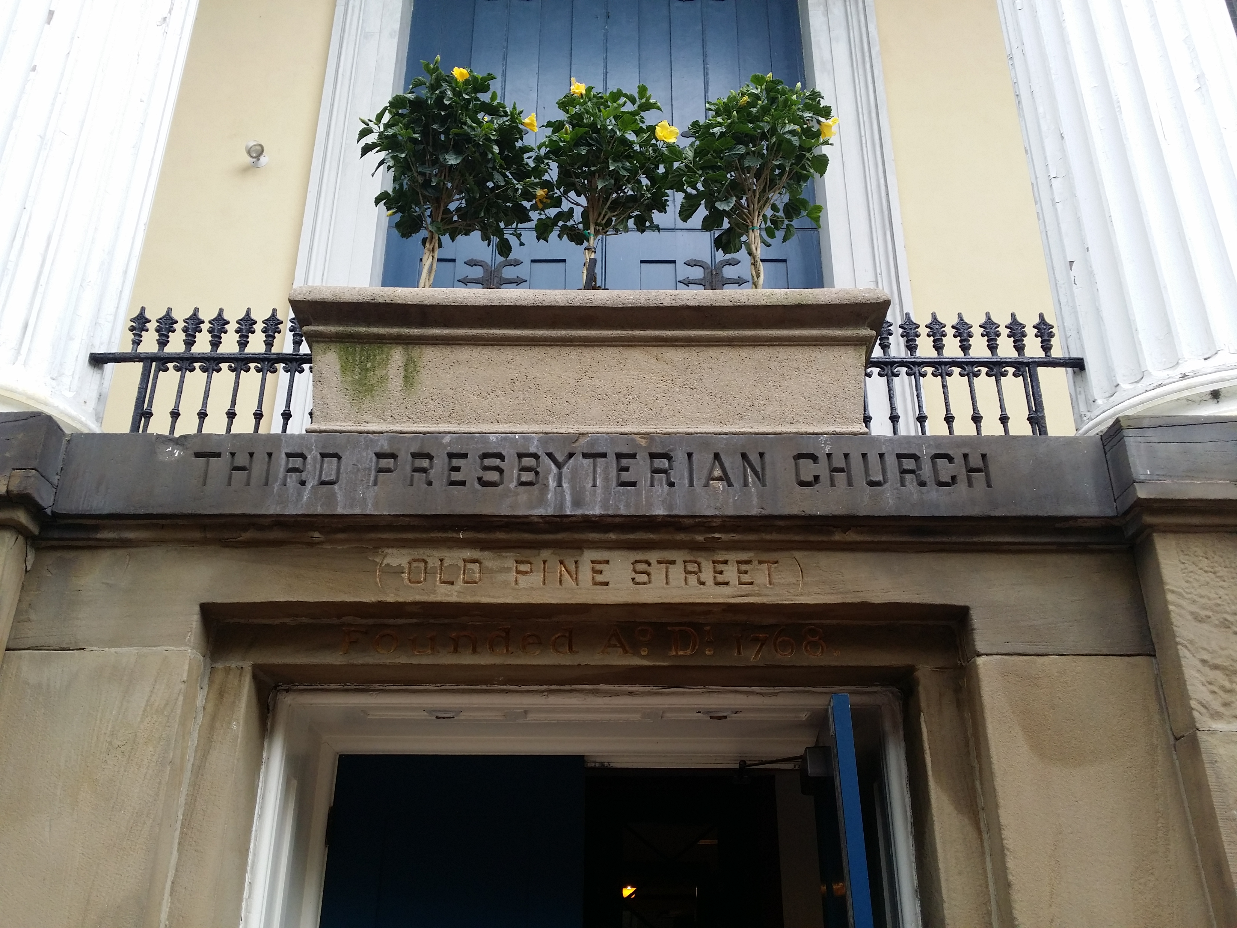 Old Pine Street Church, 412 Pine Street, Philadelphia, Pennsylvania. Photo by Morris Levin on May 2, 2016